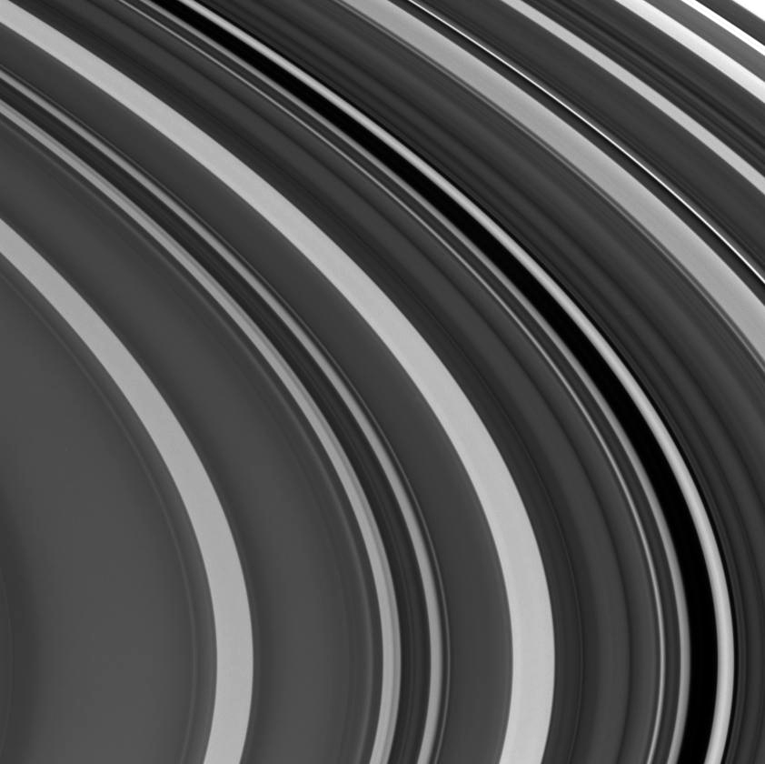 This fantastic close-up of Saturn's outer C ring shows large and sharp changes in brightness across the rings, owing to the extreme variations in ring particle concentrations at different distances from the planet. The dark gap running through the center contains the Maxwell ringlet, as well as a faint, narrow ringlet discovered in Cassini images. Another very dark region to the right of the Maxwell gap is also a narrow gap. The image was taken in visible light with the Cassini spacecraft narrow angle camera on Oct. 29, 2004, at a distance of about 836,000 kilometers (519,000 miles) from Saturn. The image scale is 4.6 kilometers (2.9 miles) per pixel. The Cassini-Huygens mission is a cooperative project of NASA, the European Space Agency and the Italian Space Agency. The Jet Propulsion Laboratory, a division of the California Institute of Technology in Pasadena, manages the Cassini-Huygens mission for NASA's Office of Space Science, Washington, D.C. The Cassini orbiter and its two onboard cameras, were designed, developed and assembled at JPL. The imaging team is based at the Space Science Institute, Boulder, Colo. For more information, about the Cassini-Huygens mission visit, and the Cassini imaging team home page, The contrast of the NASA image has been slightly increased.